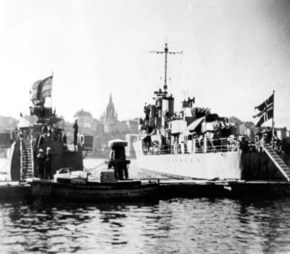 The Royal Norwegian Navy escort ship HNoMS Arendal, at Kastellholmen, Stockholm, 1948.